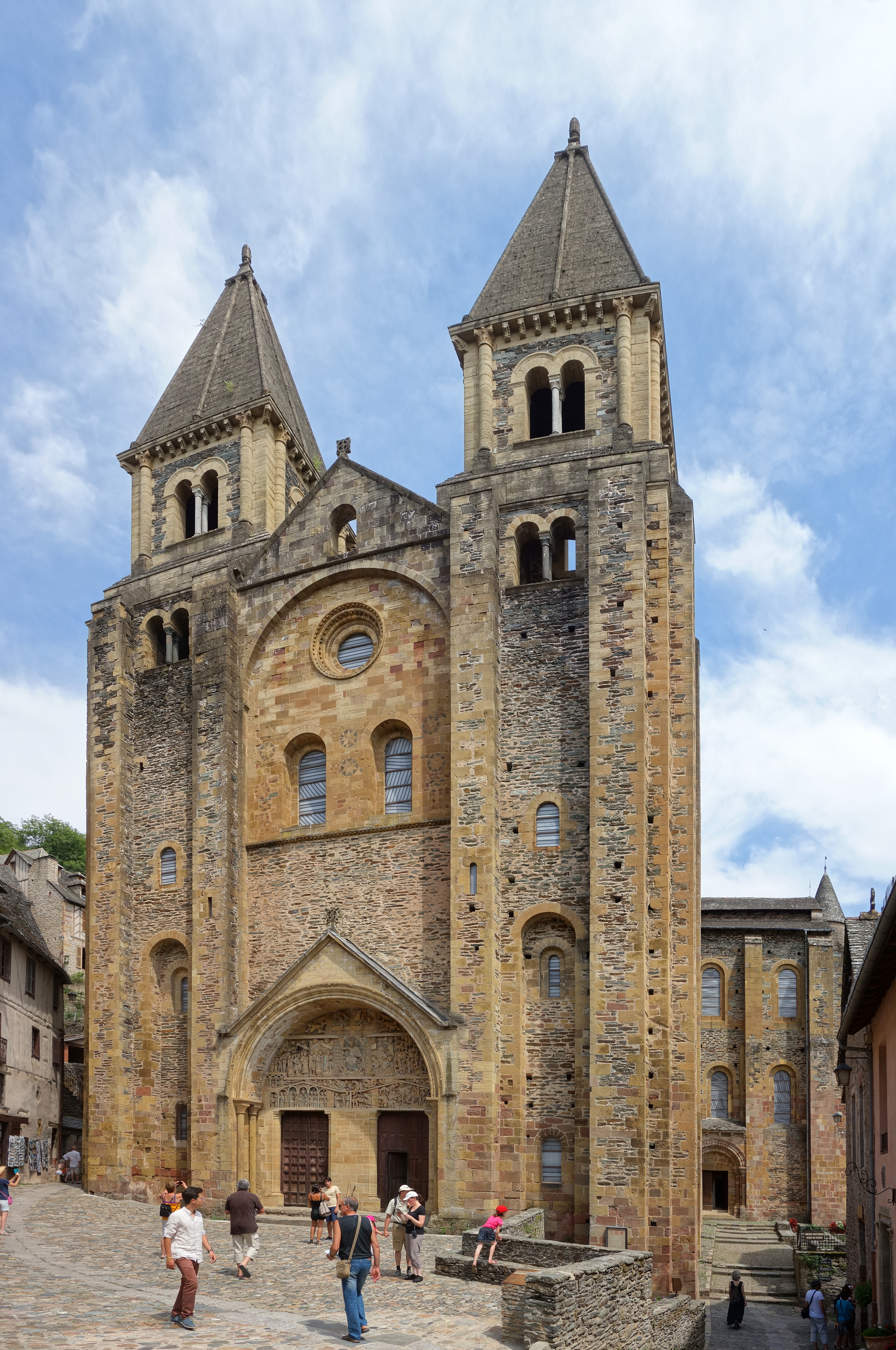 Facade of Abbatiale Sainte-Foy in Conques, Aveyron, France.